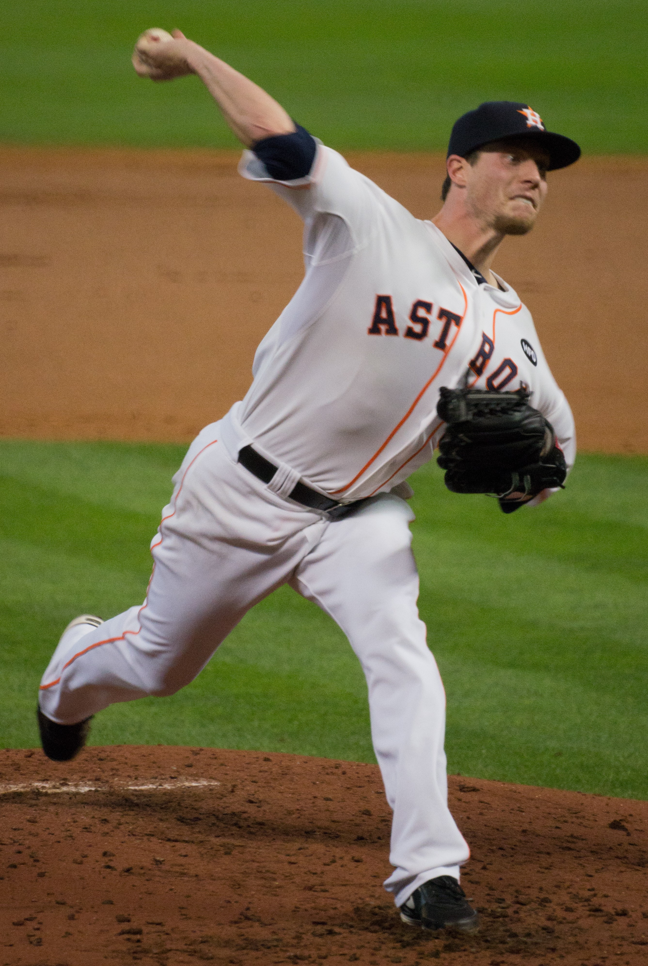 Lucas Harrell 2013